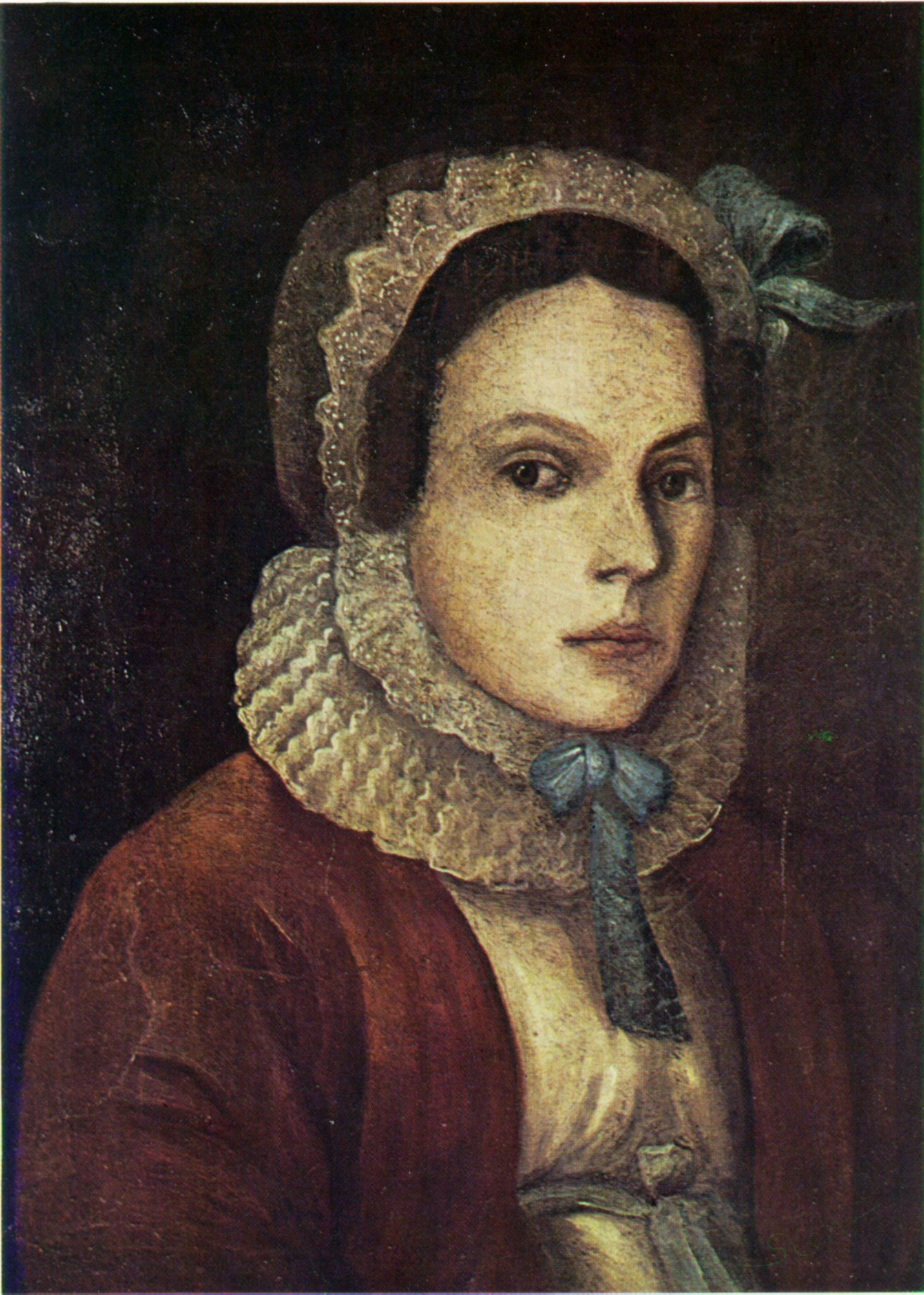 Marija Dmitrievna Mendeleeva — mother of D. I. Mendeleev. Unknow artist. First half XIX c. Oil.